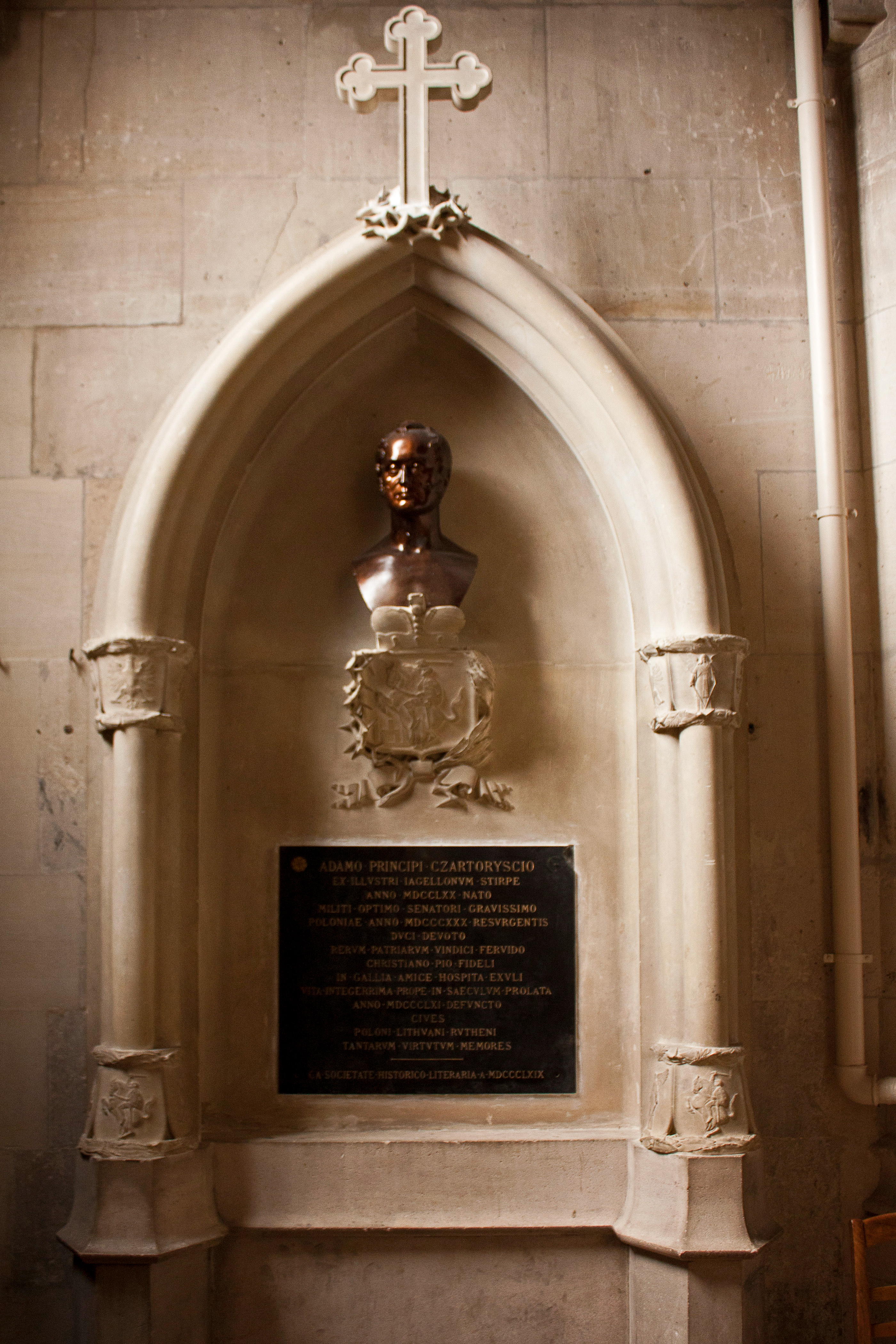 Funerary Monument of the Prince Czartoryscio.